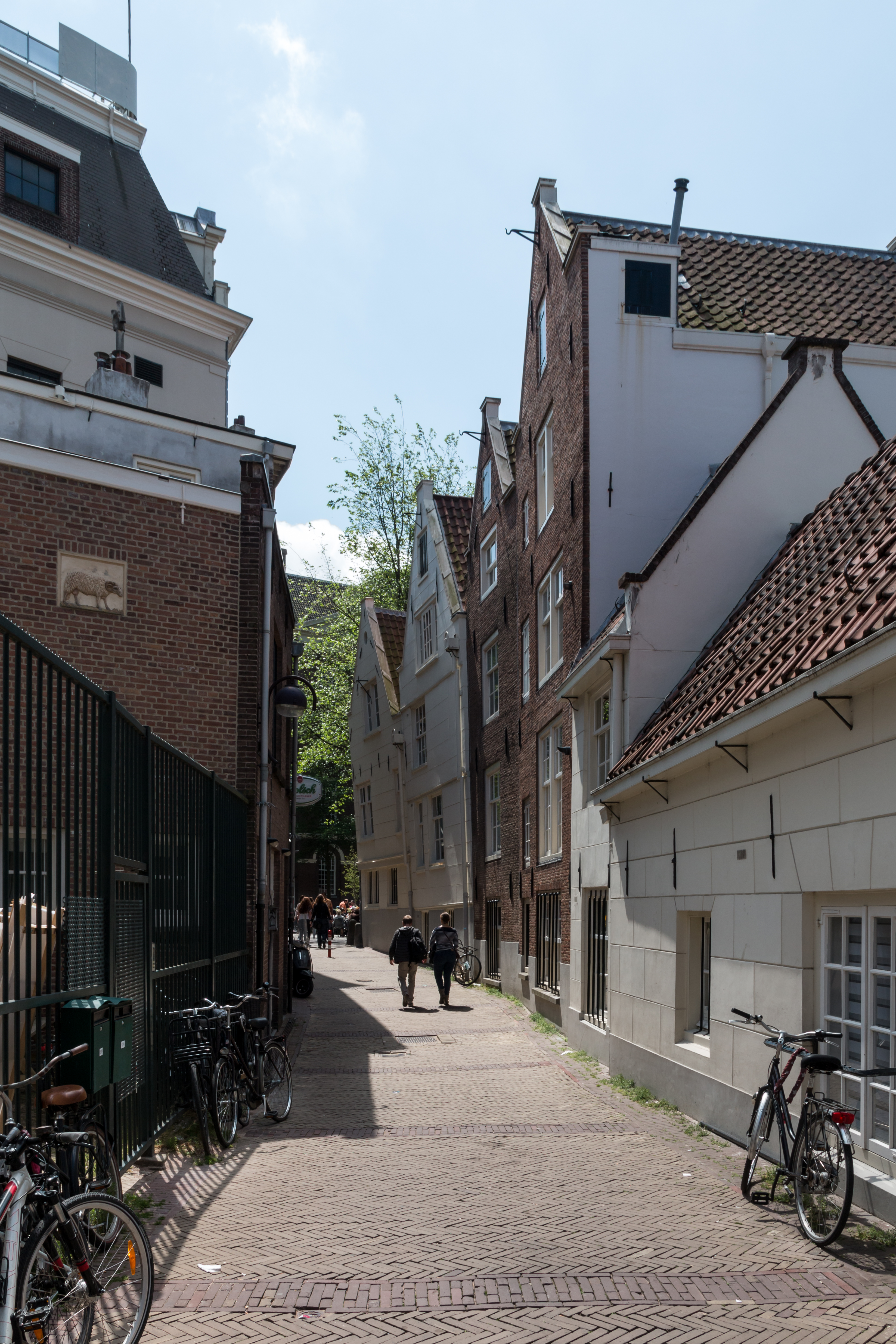 Gedempte Begijnensloot, Amsterdam, Netherlands